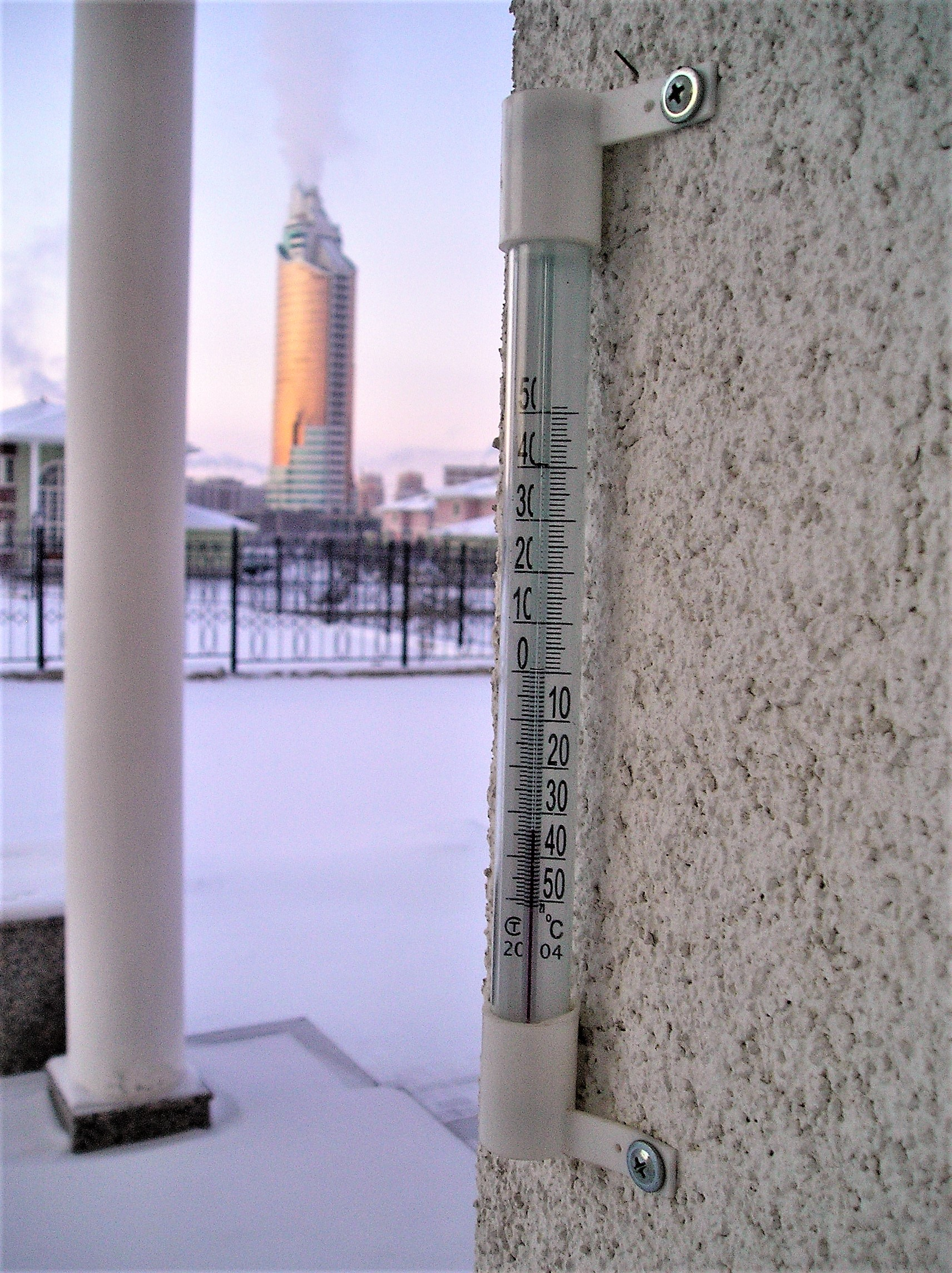 Night frost in January 2006. Our grandparents recalled the Siberian winters of their childhood.